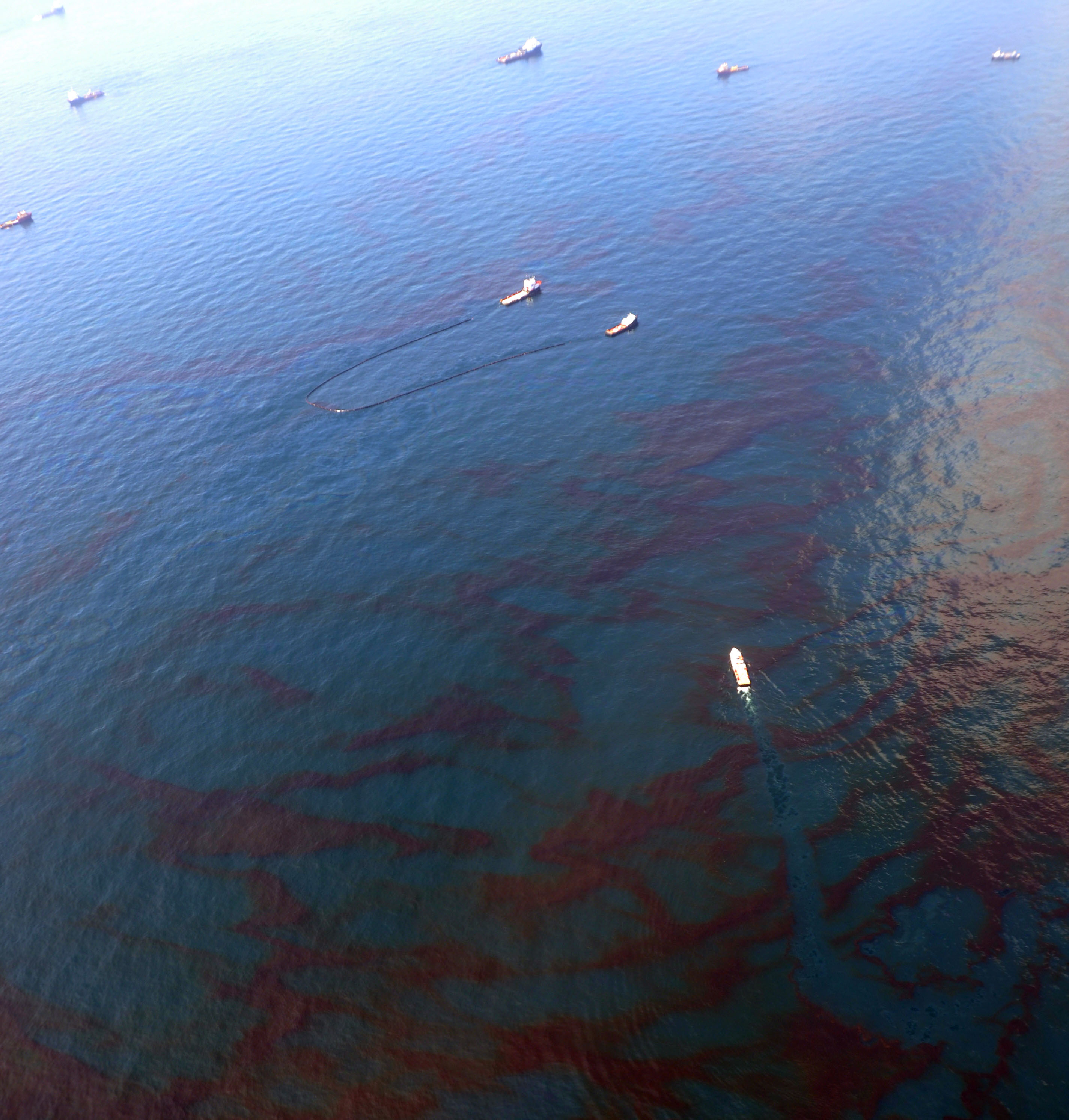 Oil skimming vessels at the site of the BP oil spill in the Gulf of Mexico.